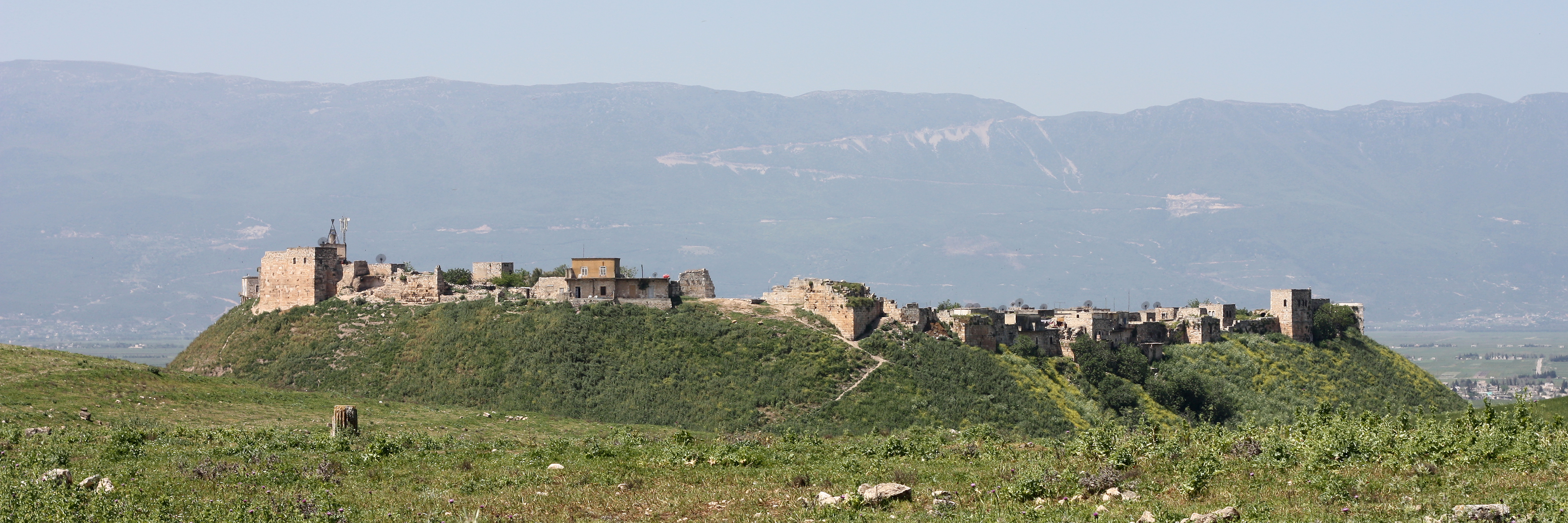 The fortified town of Qalat el-Mudiq, near the ruined Roman city of Apamea.